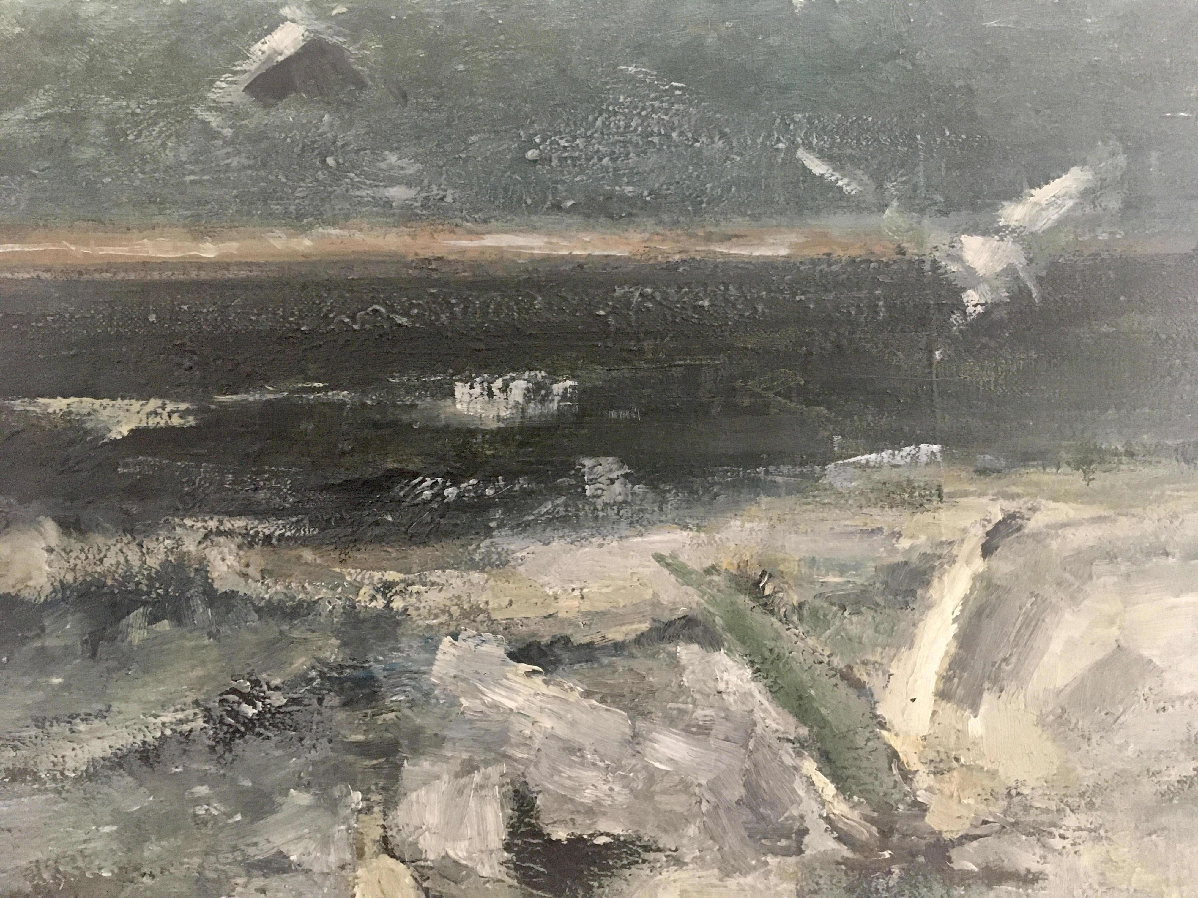 Seagulls and Sea Oil on Canvas 12x16